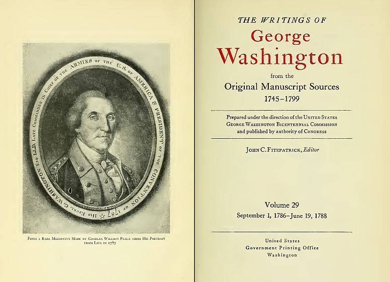 Image of title page of selected work of George Washington's writings